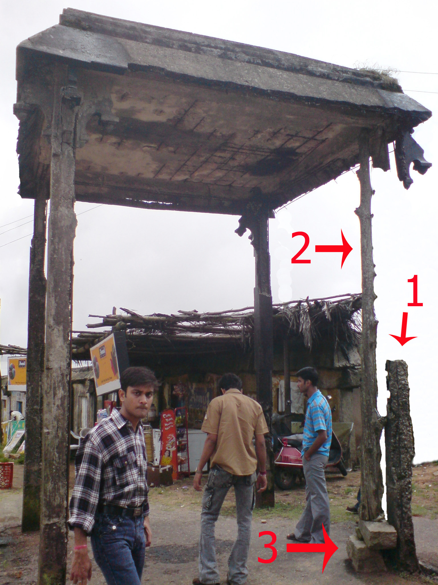 This photo depicts the 'somehow-get-it-done', 'quick-fix' mindset of Jugaad or frugal innovation in India.